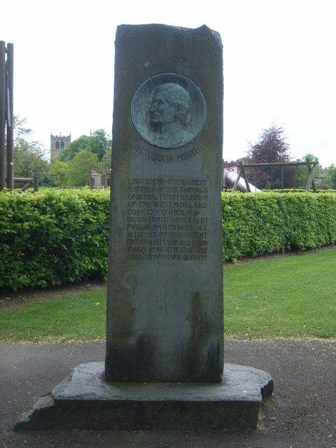 James Cropper monument James Cropper was the last member of parliament for the ancient borough of Kendal 1823 - 1900